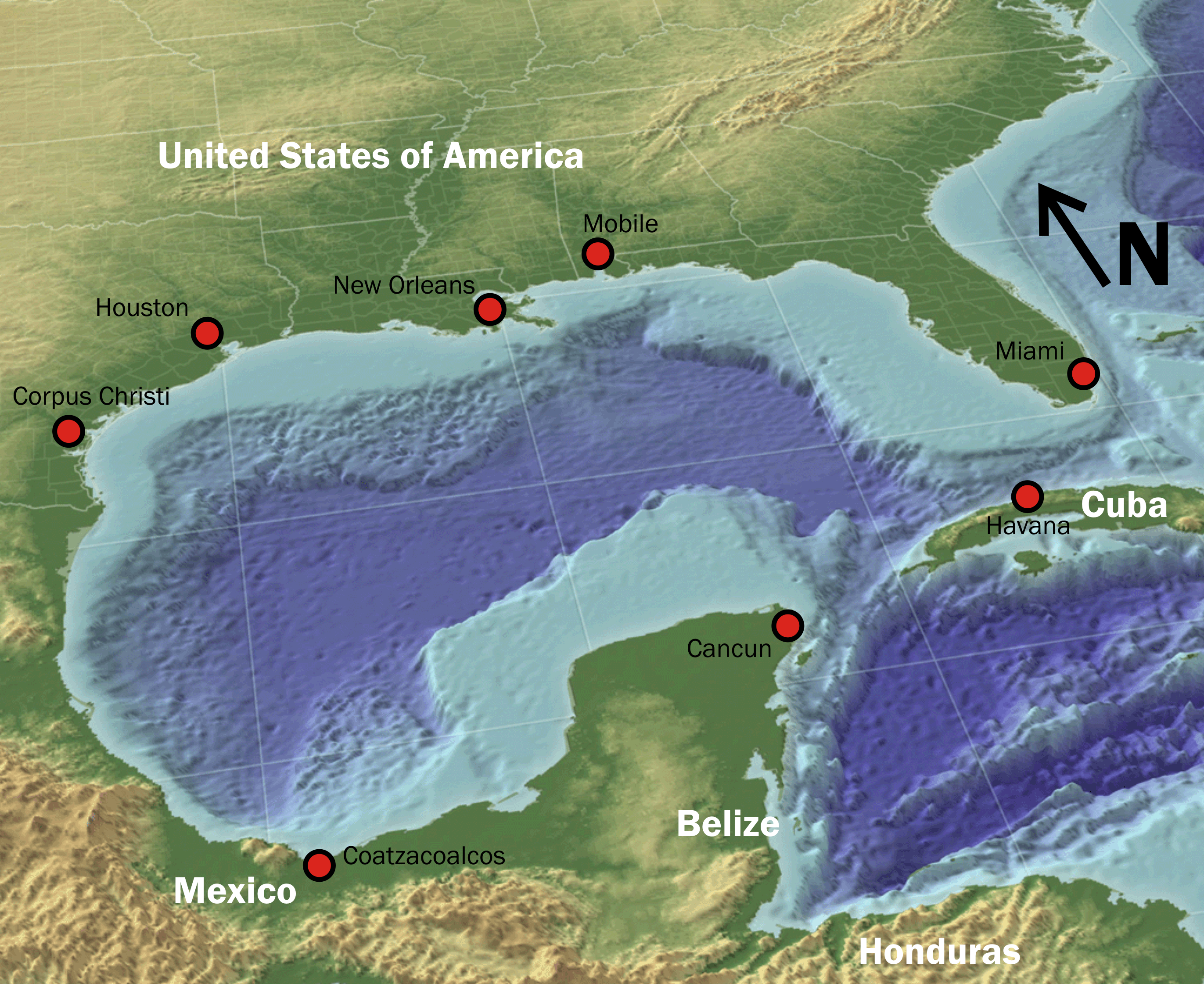 3d overview of the Gulf of Mexico, with some placenames.